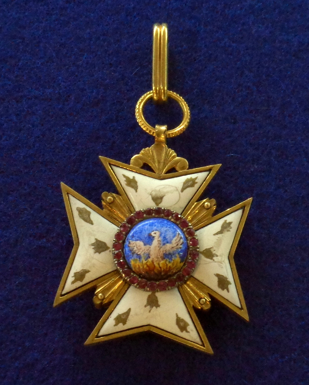 Order of the Golden Flame (Order of Phoenix), badge, c.1770. Principality of Hohenlohe. The exhibition of the Tallinn Museum of Orders of Knighthood, Estonia.